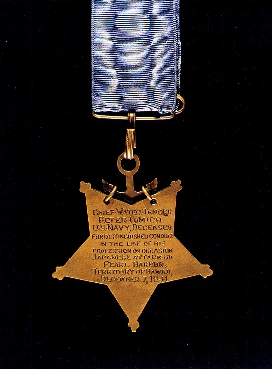 Reverse of a Medal of Honor awarded posthumously to Chief Water Tender Peter Tomich for "extraordinary courage and disregard of his own safety" as USS Utah (AG-16) was sinking during the attack on Pearl Harbor, 7 December 1941. The text reads: CHIEF WATER TENDER PETER TOMICH U.S. NAVY, DECEASED FOR DISTINGUISHED CONDUCT IN THE LINE OF HIS PROFESSION ON OCCASION JAPANESE ATTACK ON PEARL HARBOR, TERRITORY OF HAWAII, DECEMBER 7, 1941